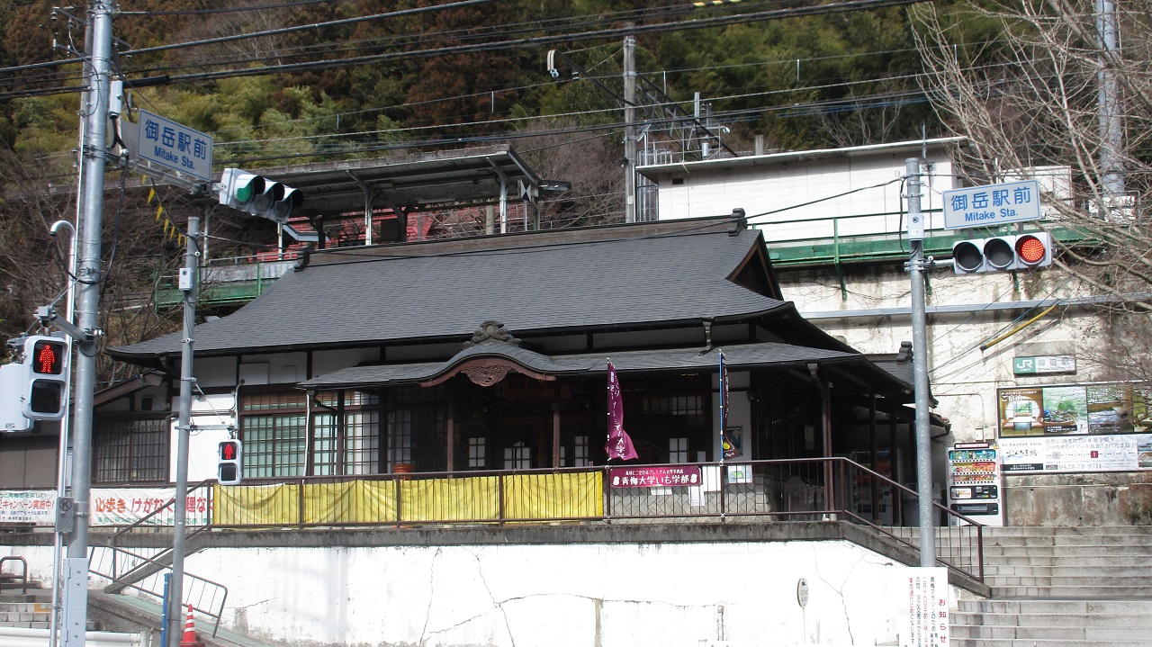 JR青梅線 御嶽駅